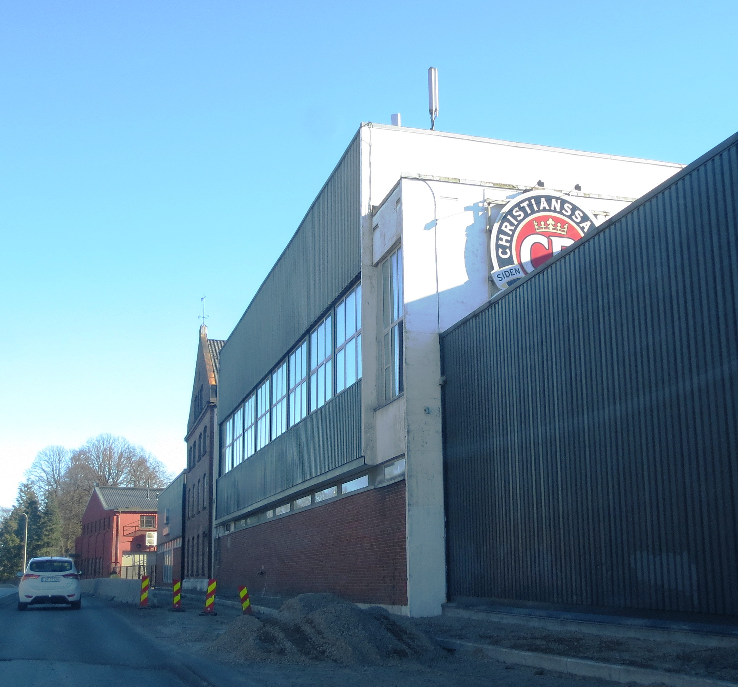 Image from Kristiansand city, Norway.